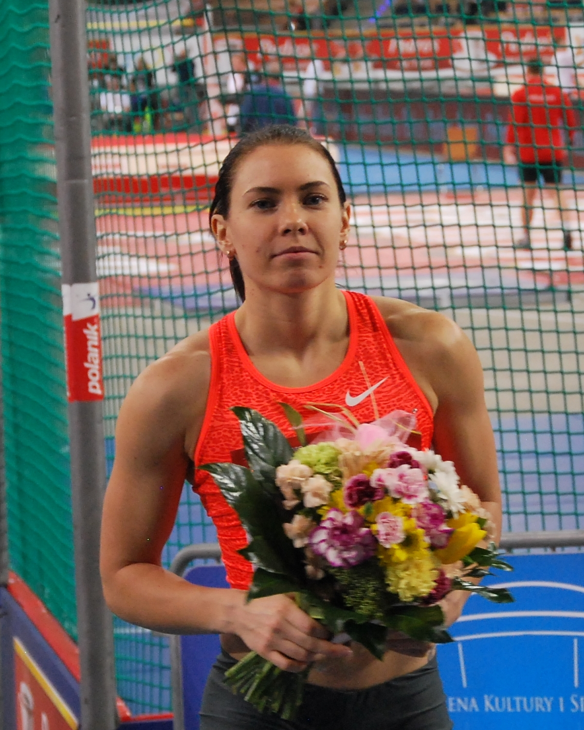 Alina Talay, hurdler from Belarus, Pedro's Cup Łódź 2016